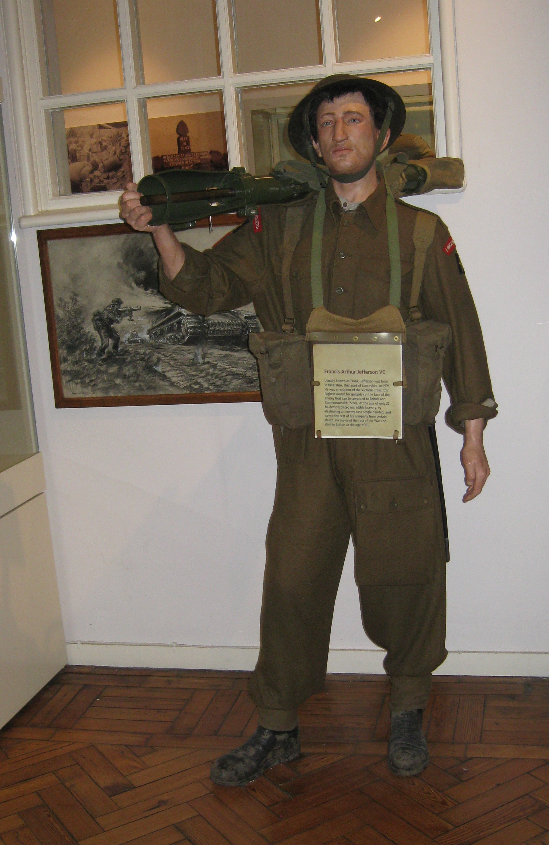 Life-size depiction of Frank Jefferson at the Fusilier Museum, Bury, holding a PIAT gun.